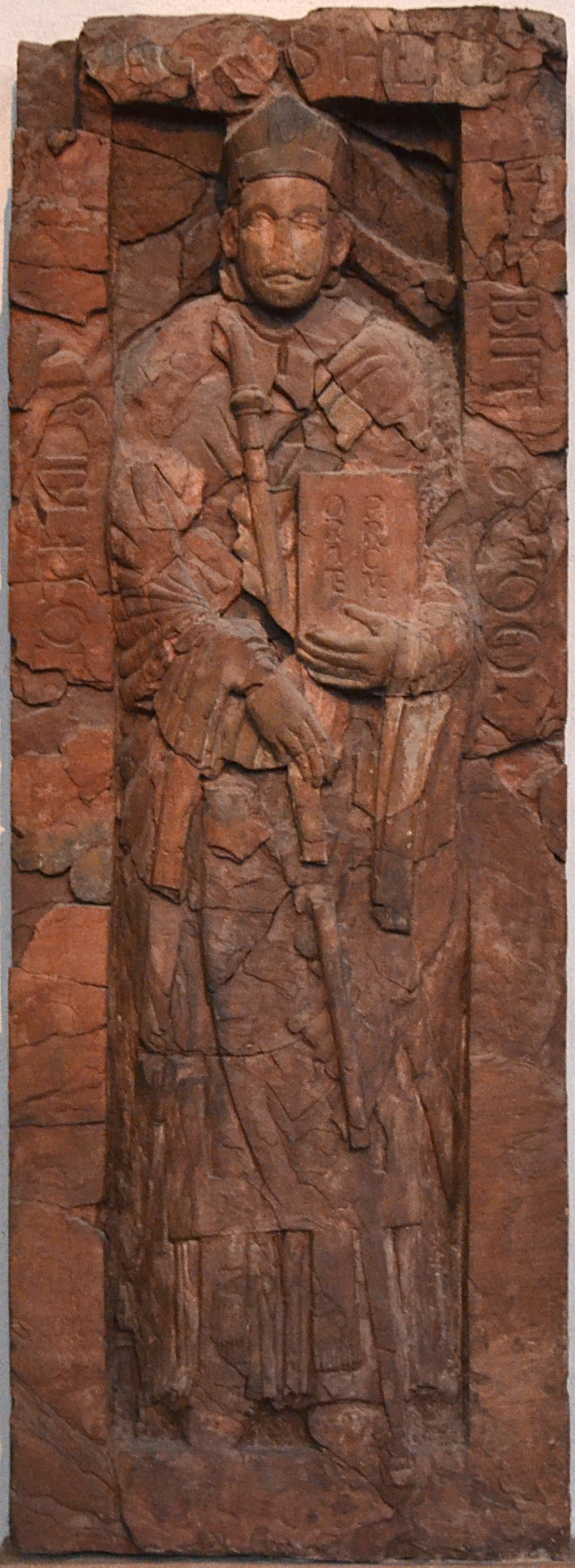 Gottfried von Spitzenberg grave in Wurzburg Cathedral